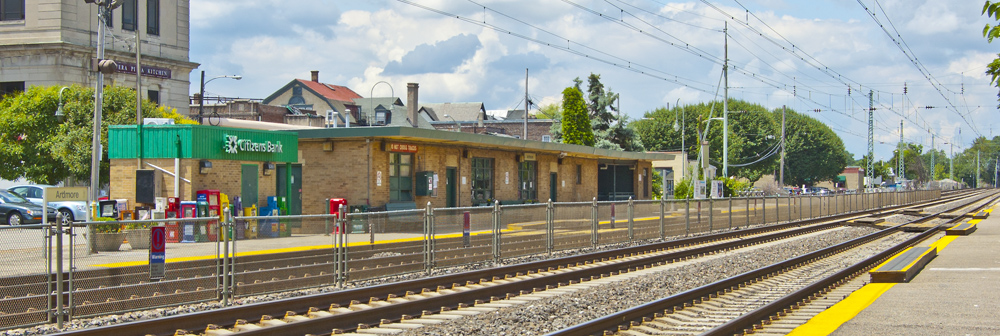 Ardmore, PA, AMTRAK and SEPTA Railroad Station (MP 8.5) on the "Keystone Corridor" four track Main Line between Philadelphia and Harrisburg.